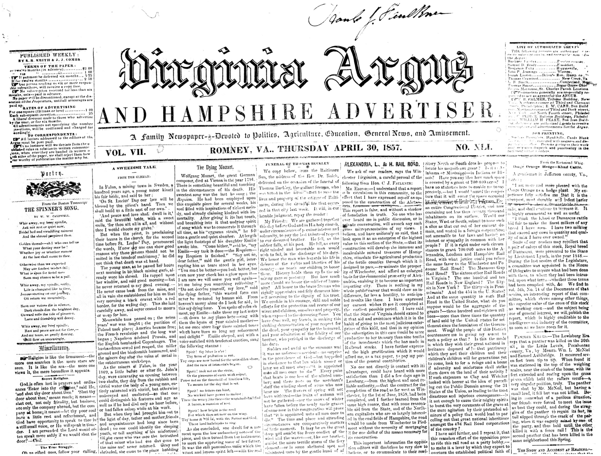 Virginia Argus and Hampshire Advertiser Volume VII Number XLI published in Romney, Virginia (now West Virginia on Thursday, April 30, 1857. This is a digital image of the newspaper's front page, above the fold. As is indicated in the signature at the top of the page, this issue was likely owned by Charles James Faulkner, a member of the United States House of Representatives from Virginia's 8th congressional district. Faulkner later served as the United States Minister to France, and again as a member of the United States House of Representatives from West Virginia's 2nd congressional district.